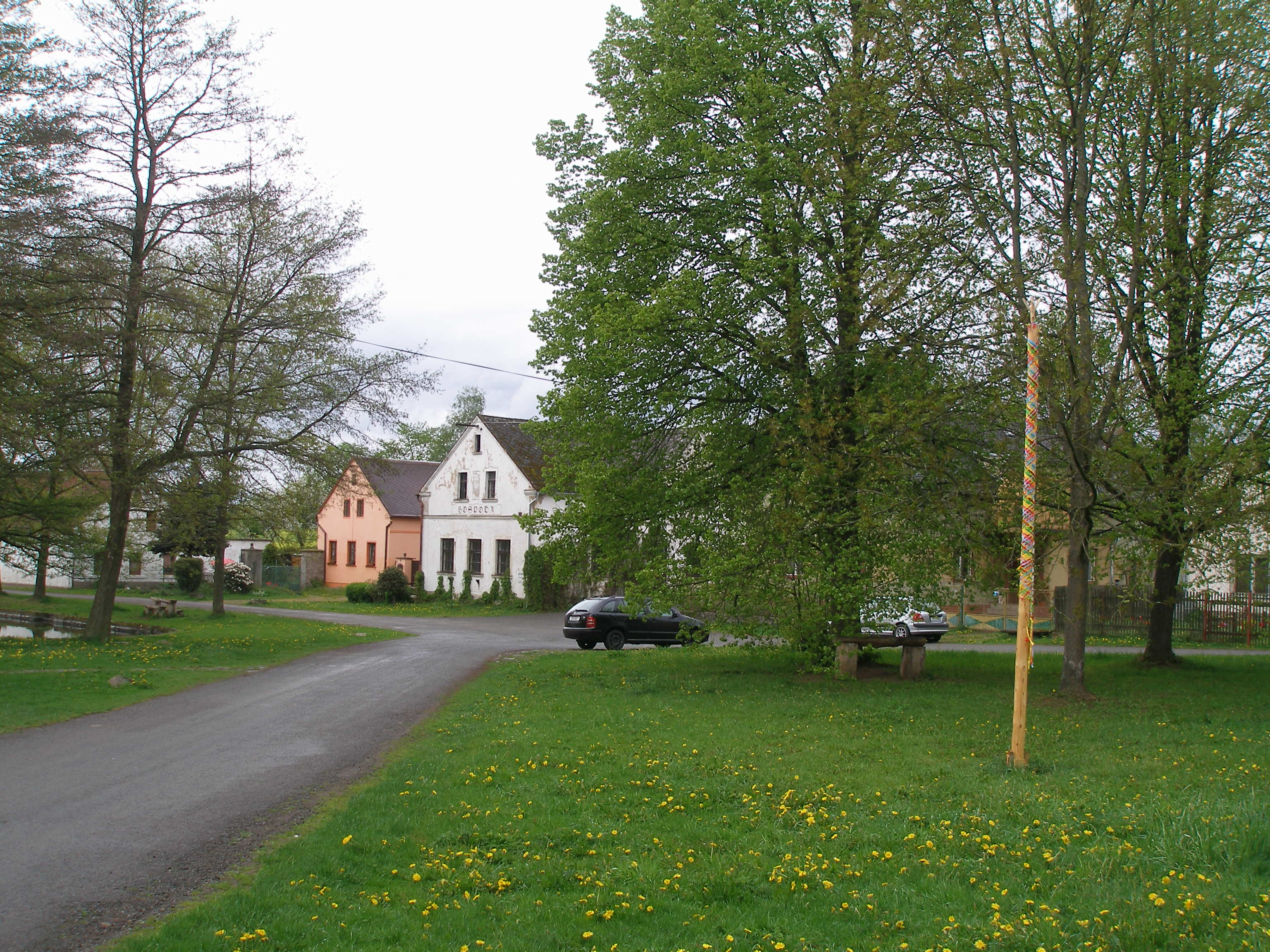 The north-western part of the square in Olbramov